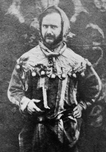 William Burges, English architect